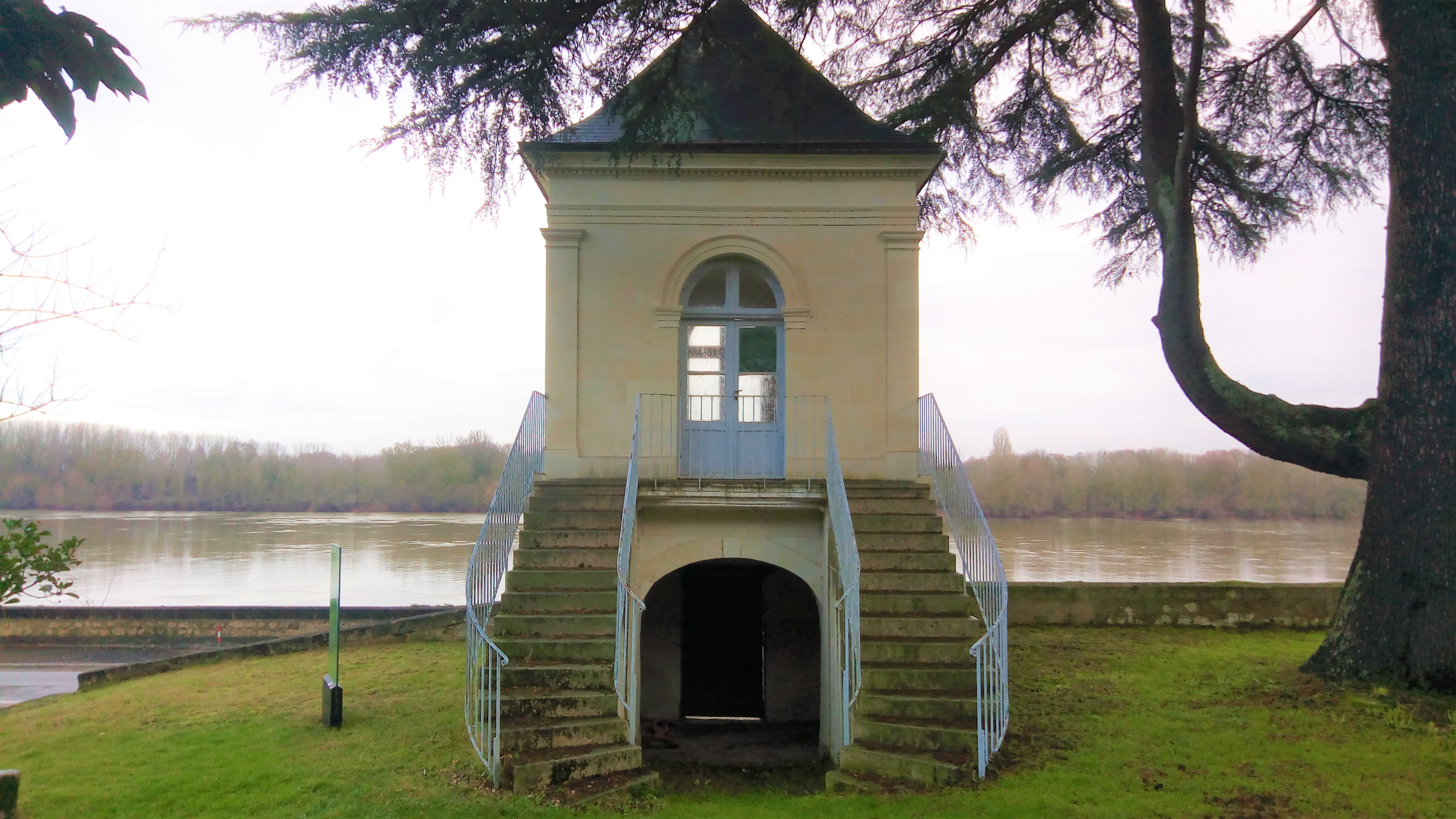 Gloriette located in the park of Château of Montsoreau